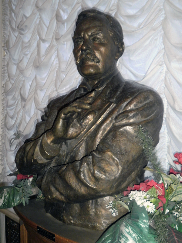 в киевской филармонии